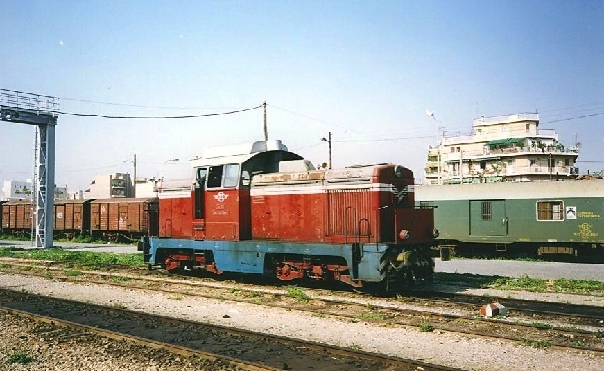 Greek railways Faur class 151 shunter between duties at Athens station